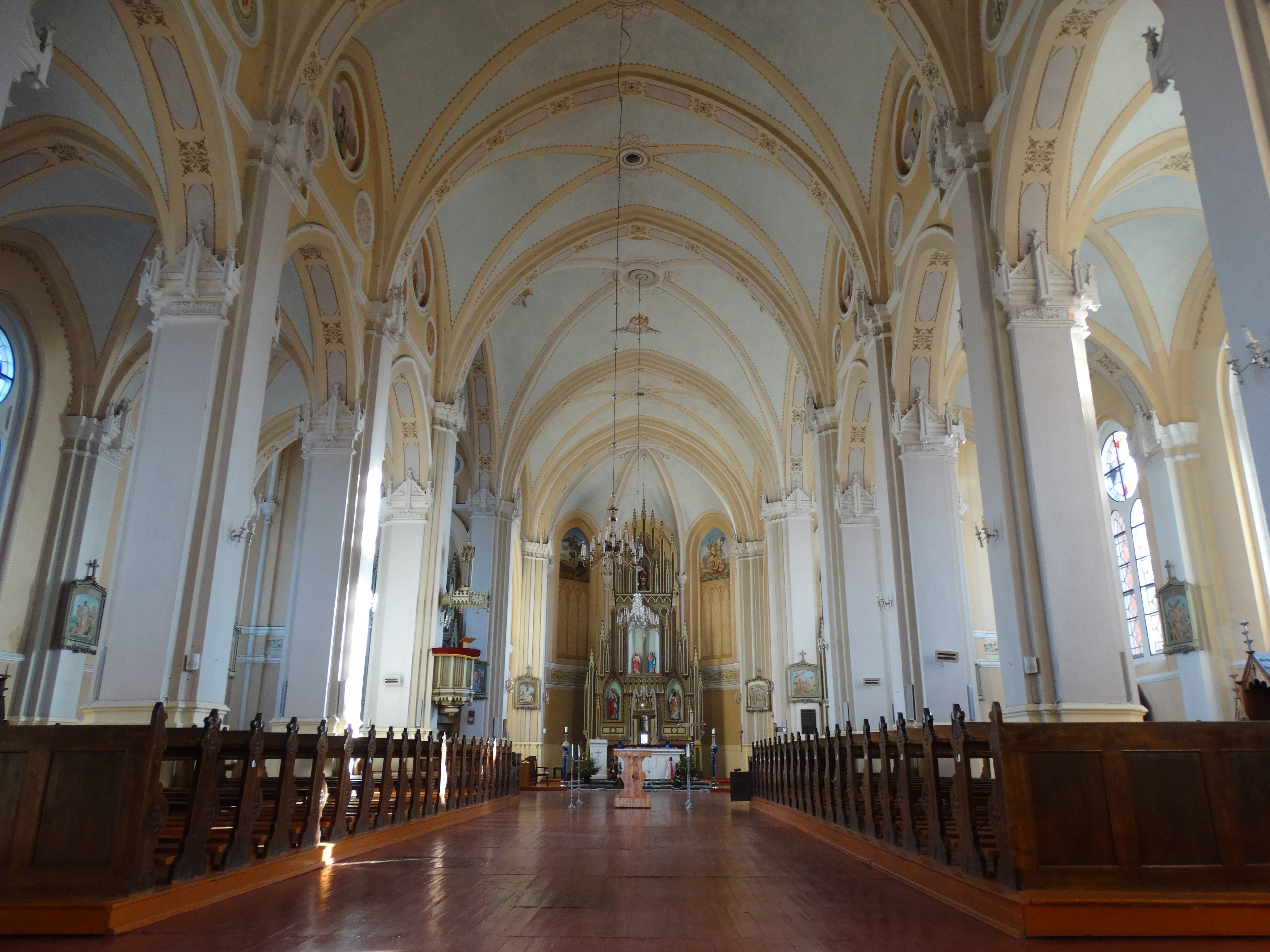 Saint George church interior, Vilkija, Lithuania